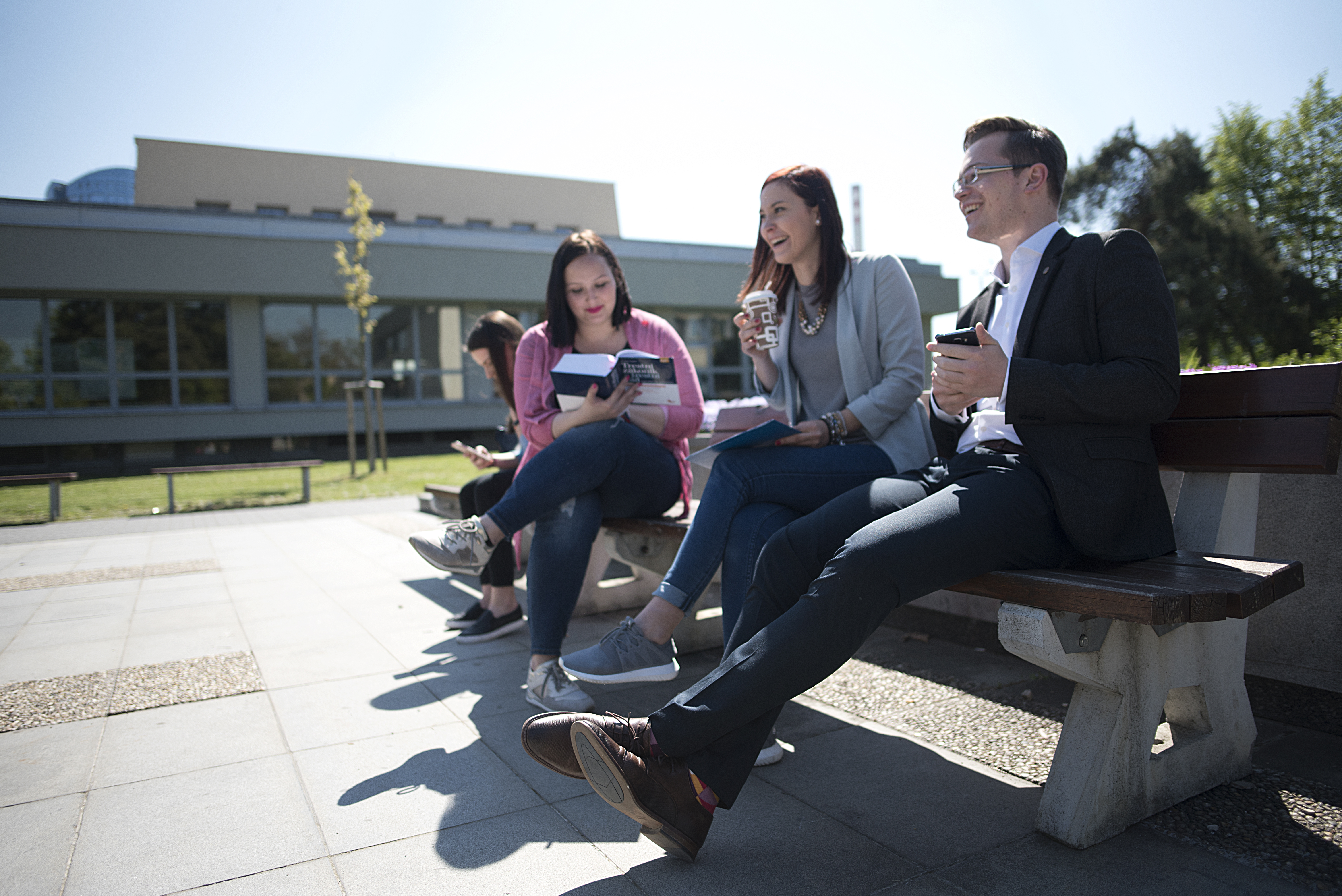 Outdoor spaces